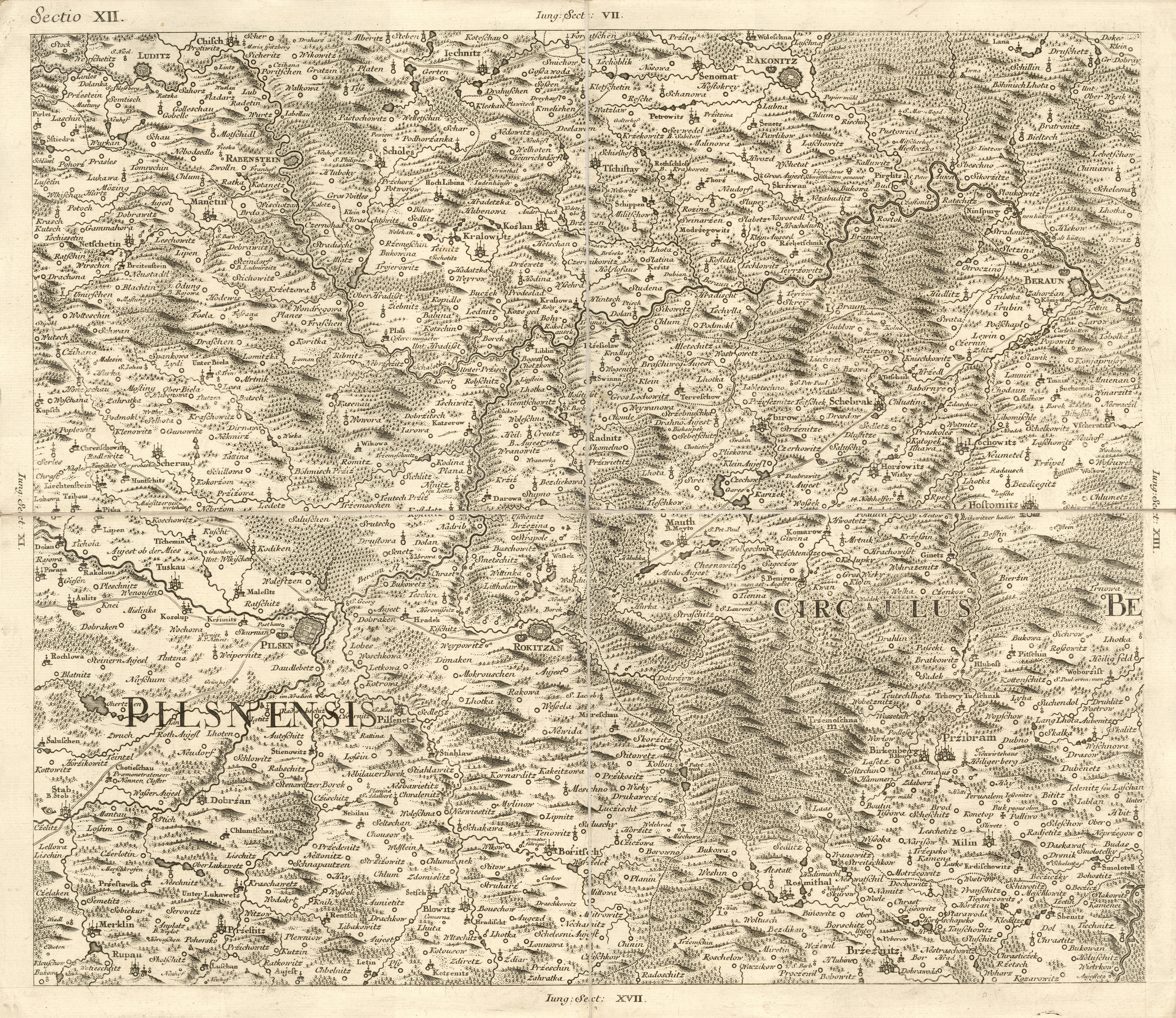 Müller's map of Bohemia.